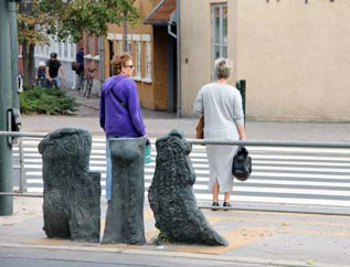 Adapted Surroundings #1 2000, Poul R. Weile, Thomas B. Thriges Street, Odense, Denmark